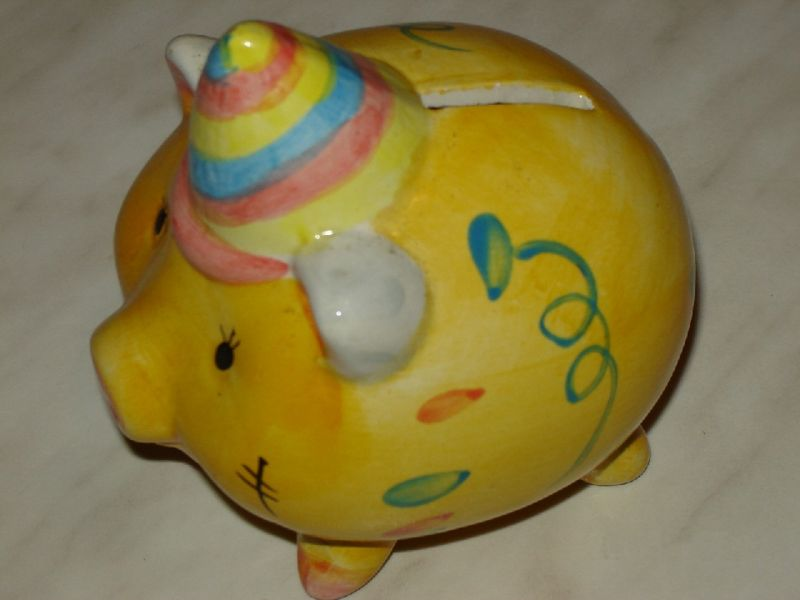 A Piggy bank (penny bank/money box)